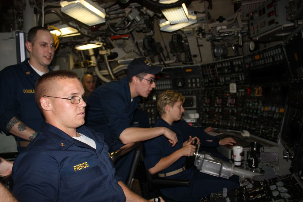 USS WEST VIRGINIA, UNDERWAY (June 3, 2010) Midshipmen learn to pilot the submarine by training in the duties of the helm and planesman while underway aboard the Ohio-class ballistic-missile submarine USS West Virginia (SSBN 736). The Midshipmen are embarked with the crew as part of Career Orientation and Training for Midshipmen (CORTRAMID), a summer program that gives future naval officers experience in the fleet. (U.S. Navy photo/Released)